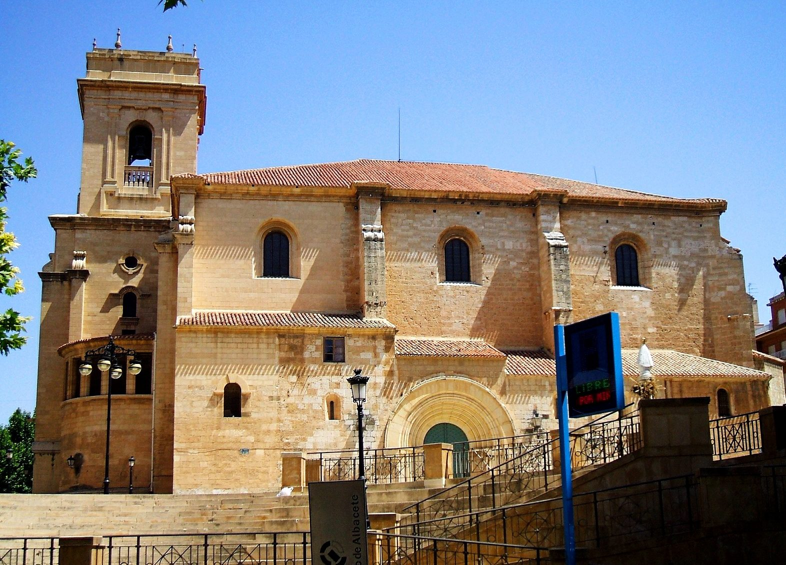 Catedral de San Juan Bautista de Albacete (Castilla-La Mancha, España).